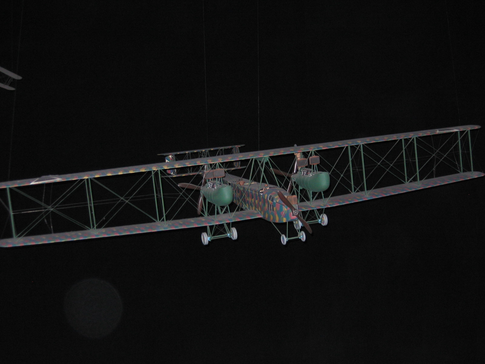 Zeppelin-Staaken R.IV R.12/15 model at the National Air and Space Museum.